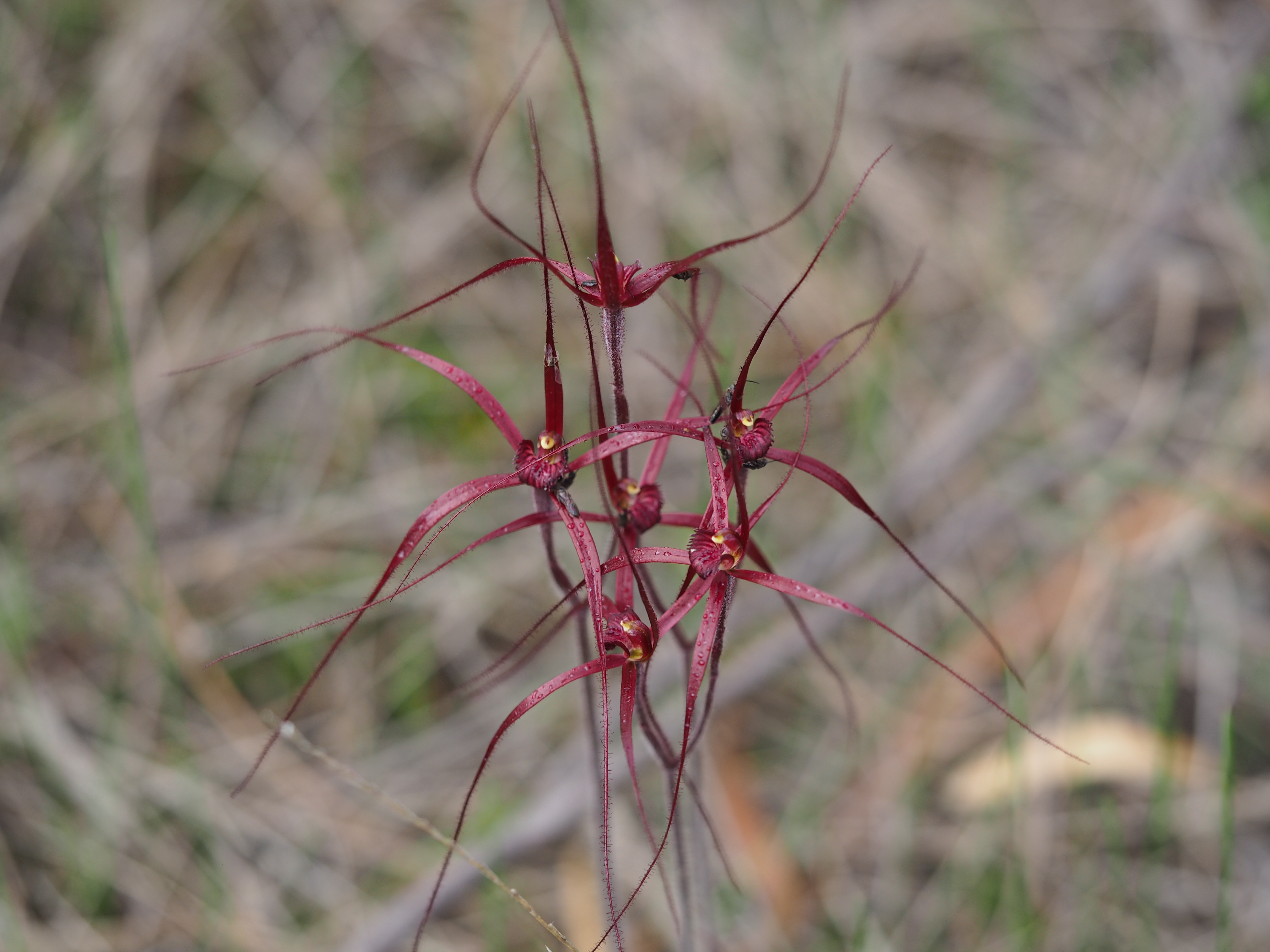 Caladenia filifera growing near the Catholic cemetery in Beverley, Western Australia